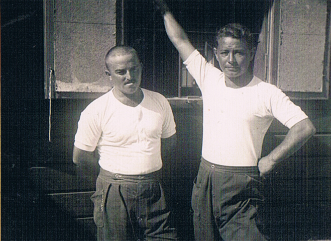 (יעקב סלומון (משמאל) משה כרמל, כלא עכו (מ"ג אסירי ההגנה